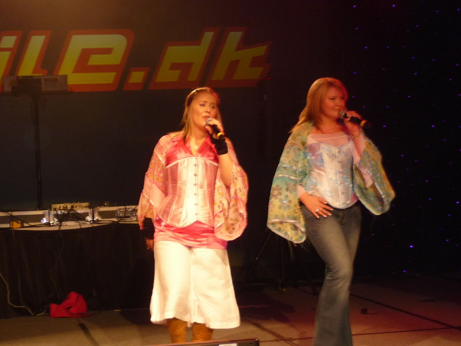 This photo is captured on Sakura-Con 2009 by flickr user "Heath_Bar"